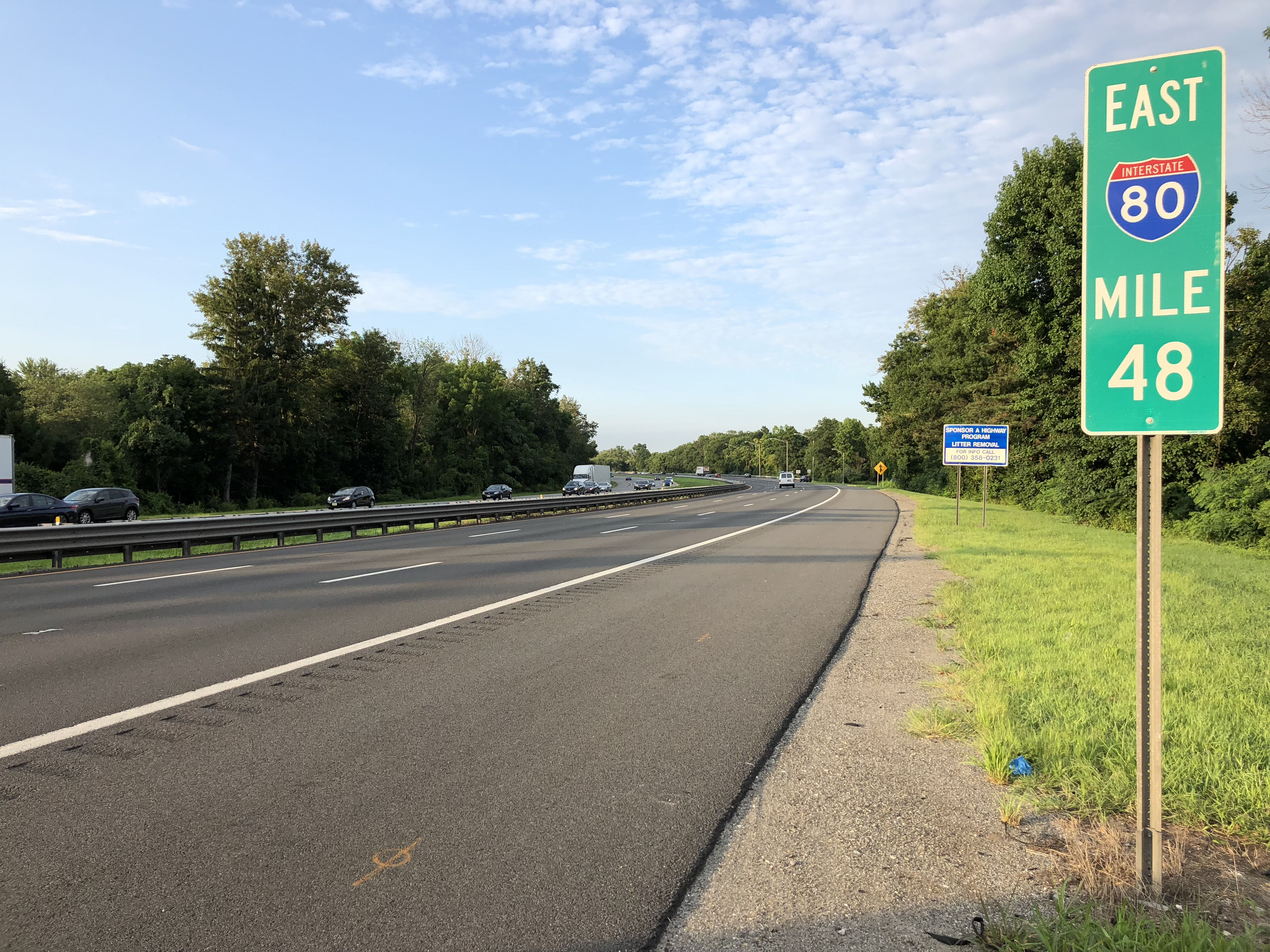 View east along Interstate 80 between Exit 47 and Exit 53 in Montville Township, Morris County, New Jersey